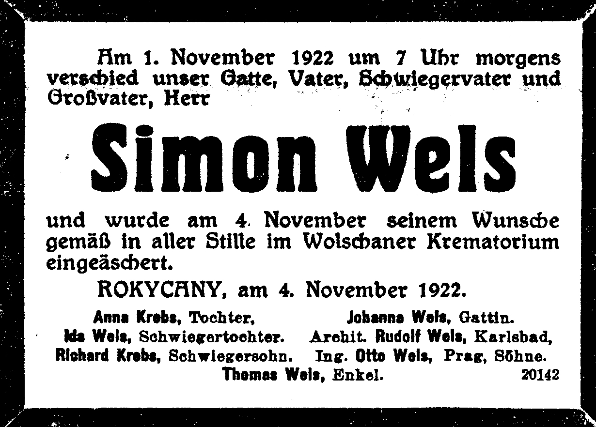 Simon Wels